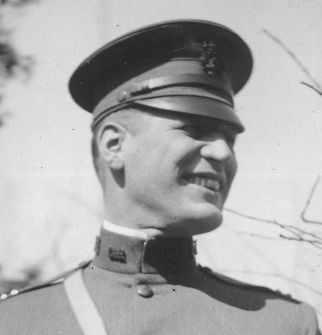 Capt. Harvey Dunn, one of the official American artists with the American Expeditionary Forces in France, November 1918. NARA holdings: Local Identifier: 111 SC 86624